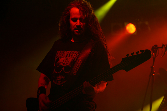 Andre Skaug, Norwegian bassplayer with Clawfinger, photo taken in Szorpron Hungary 2008